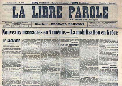 New massacres in Armenia, “La Libre Parole”, Number 1700, March 14, 1897, Paris